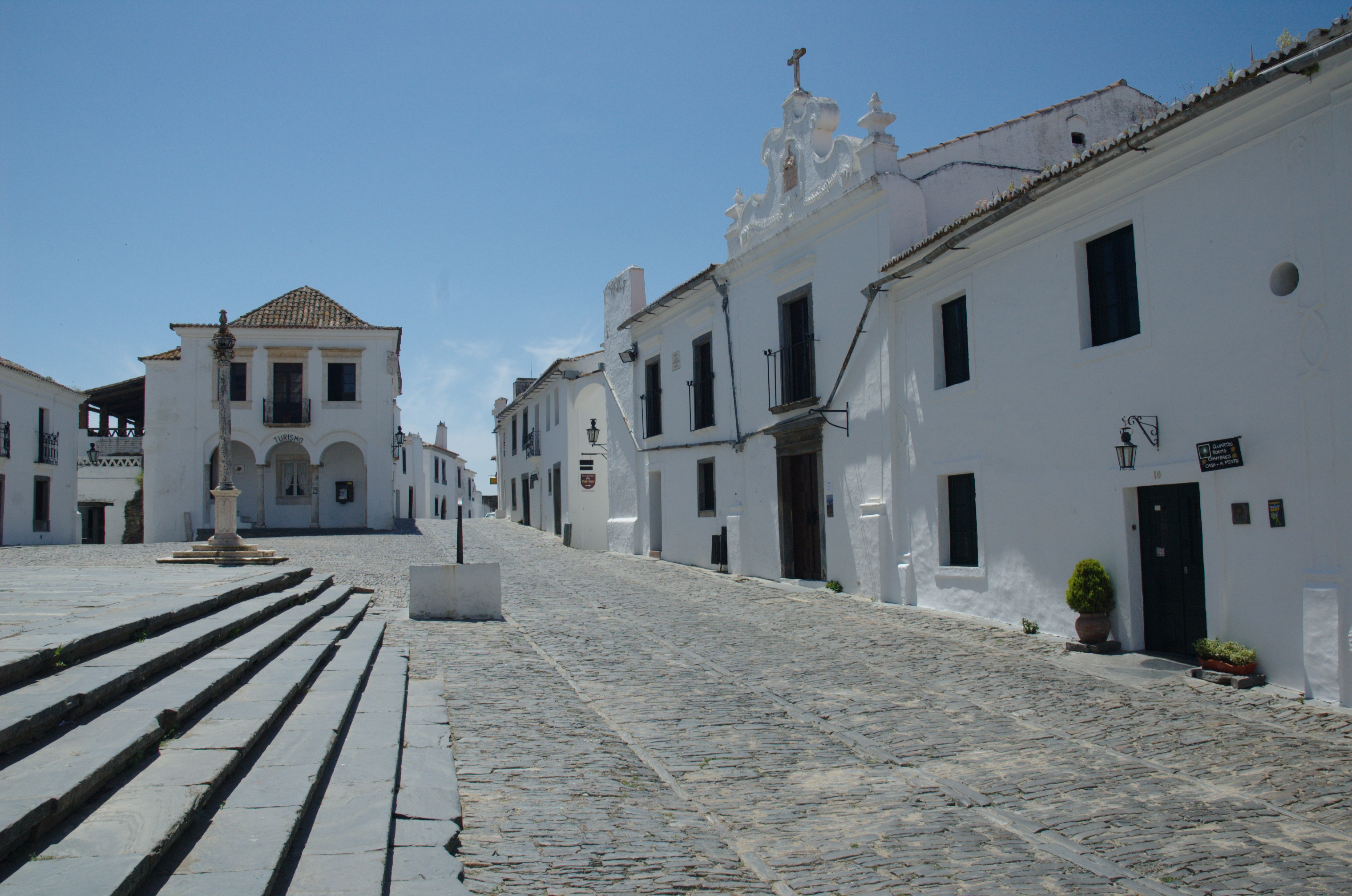 Actually I expected crowds there but our Korean group in Monsaraz.